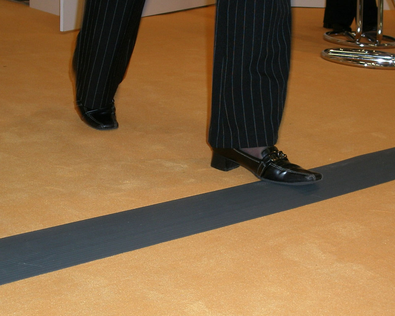 Cable Bridge